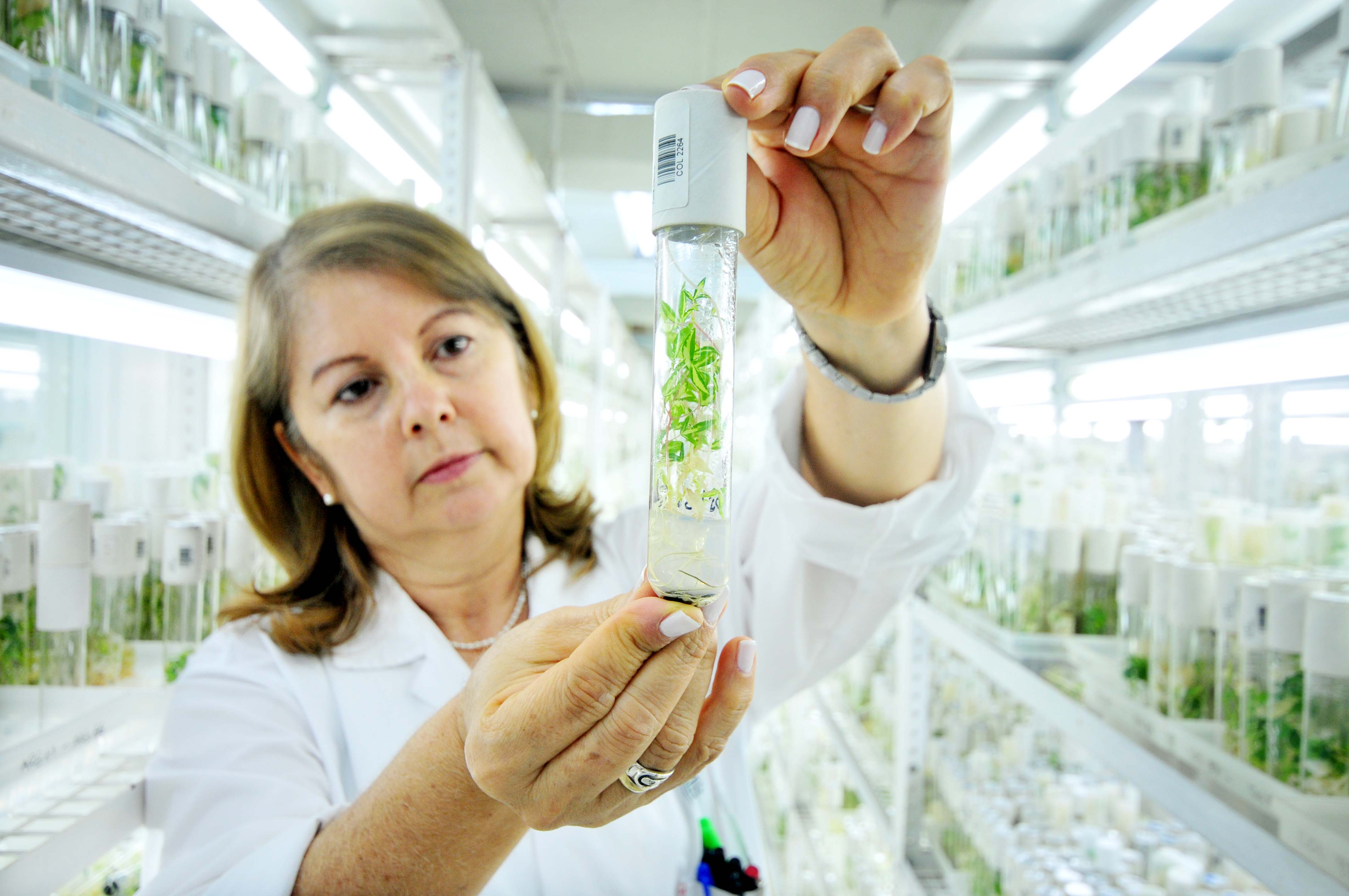 Pic by Neil Palmer (CIAT). Plant samples in the gene bank at CIAT's Genetic Resources Unit, at the institution's headquarters in Colombia.